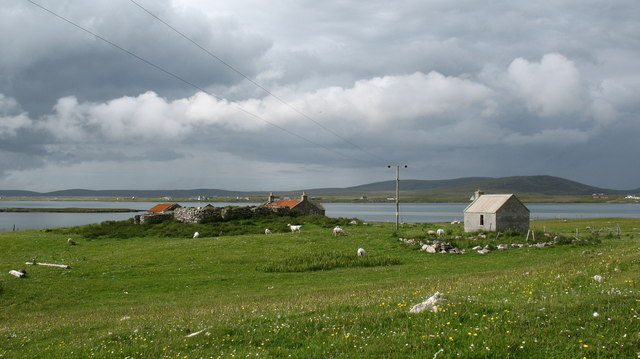 Abandoned croft at Baleshare, Outer Hebrides, Scotland